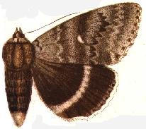 PLATE CXCV.